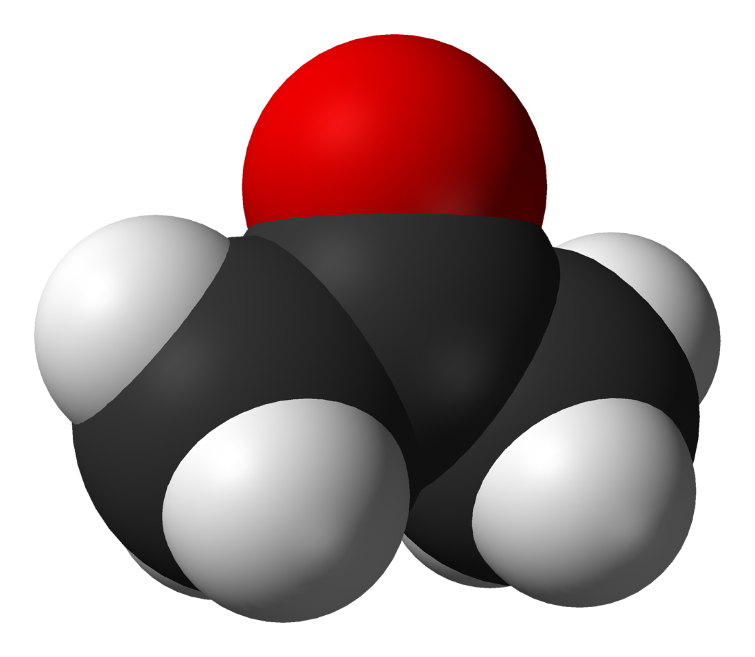 Space-filling model of the acetone molecule, C3H6O. Bond lengths and angles from CRC Handbook, 88th edition. Image generated in Accelrys DS Visualizer.